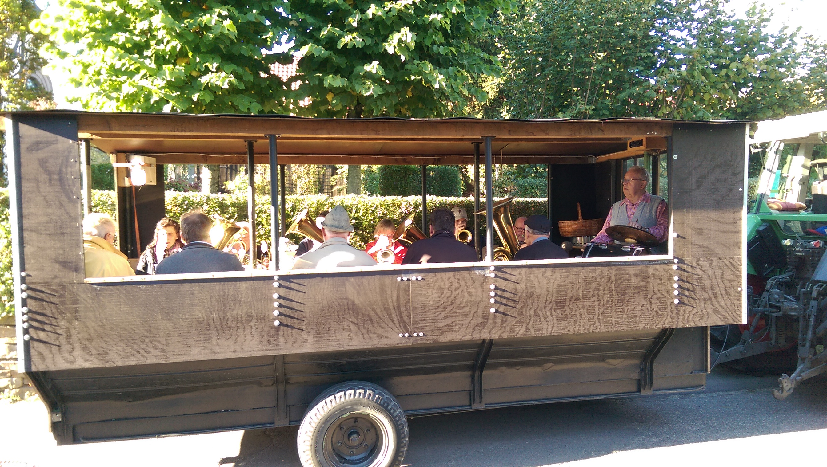 Customs in Germany Harvest Festival in Hohkeppel